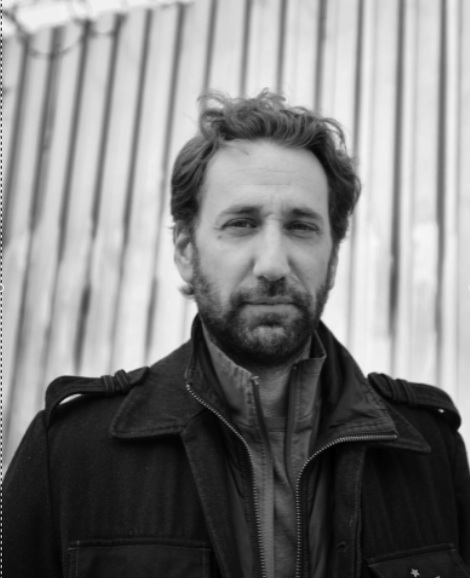 Julian Rubinstein